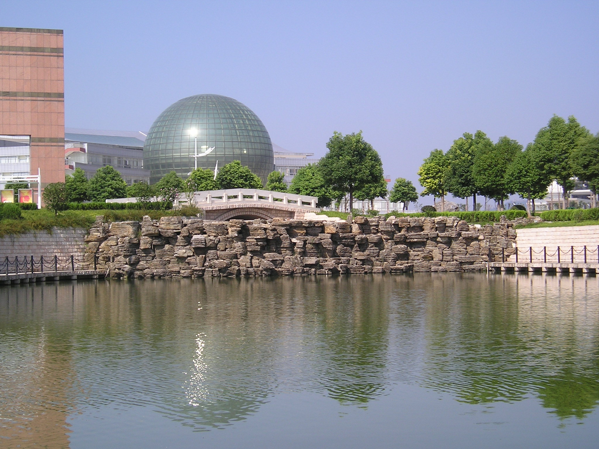 Author: B. Gillin Date: 18 September 2006